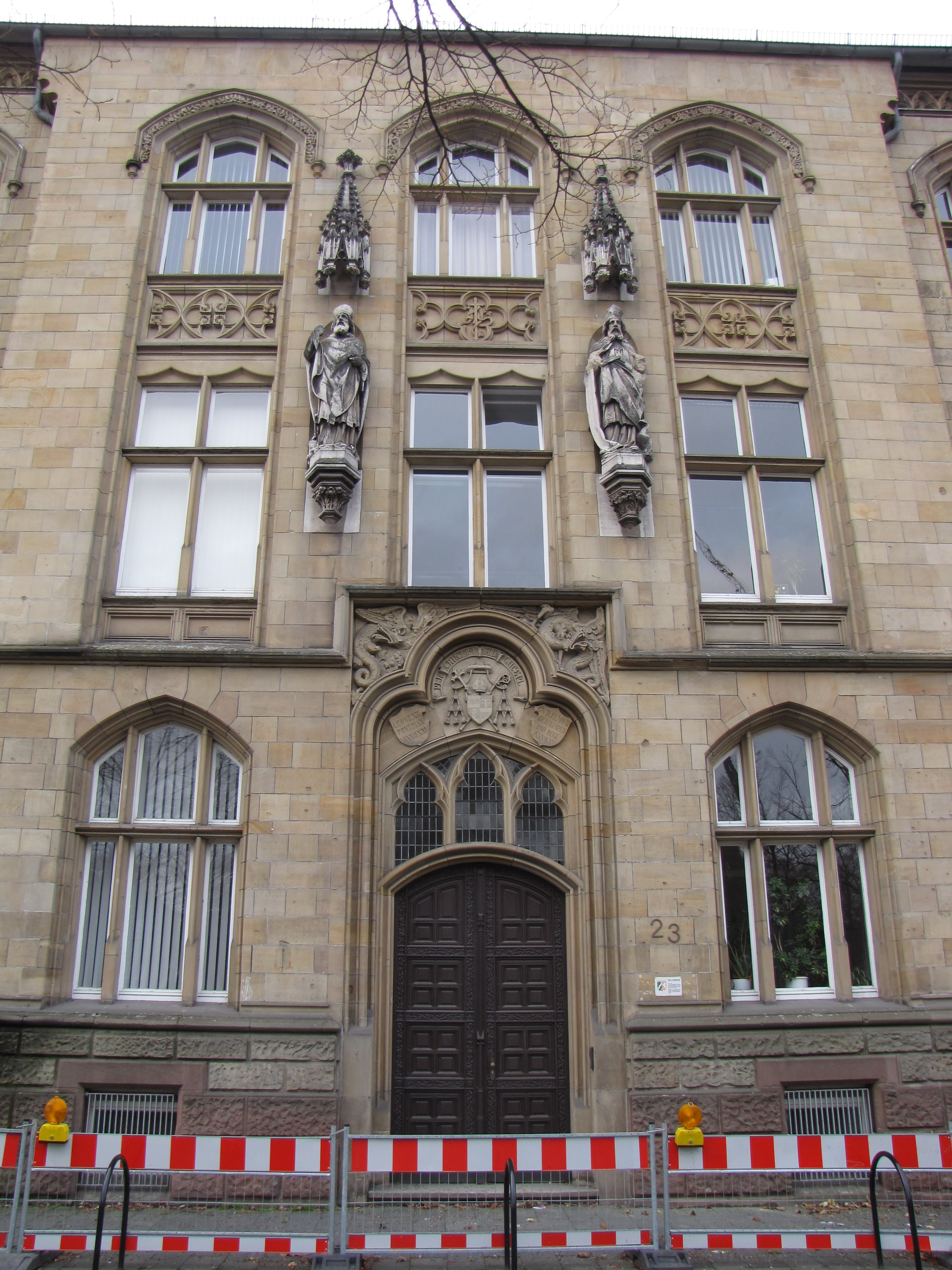 Front of the Collegium Ludgerianum (former convict) at Domplatz 23, Münster (Westfalen), Germany